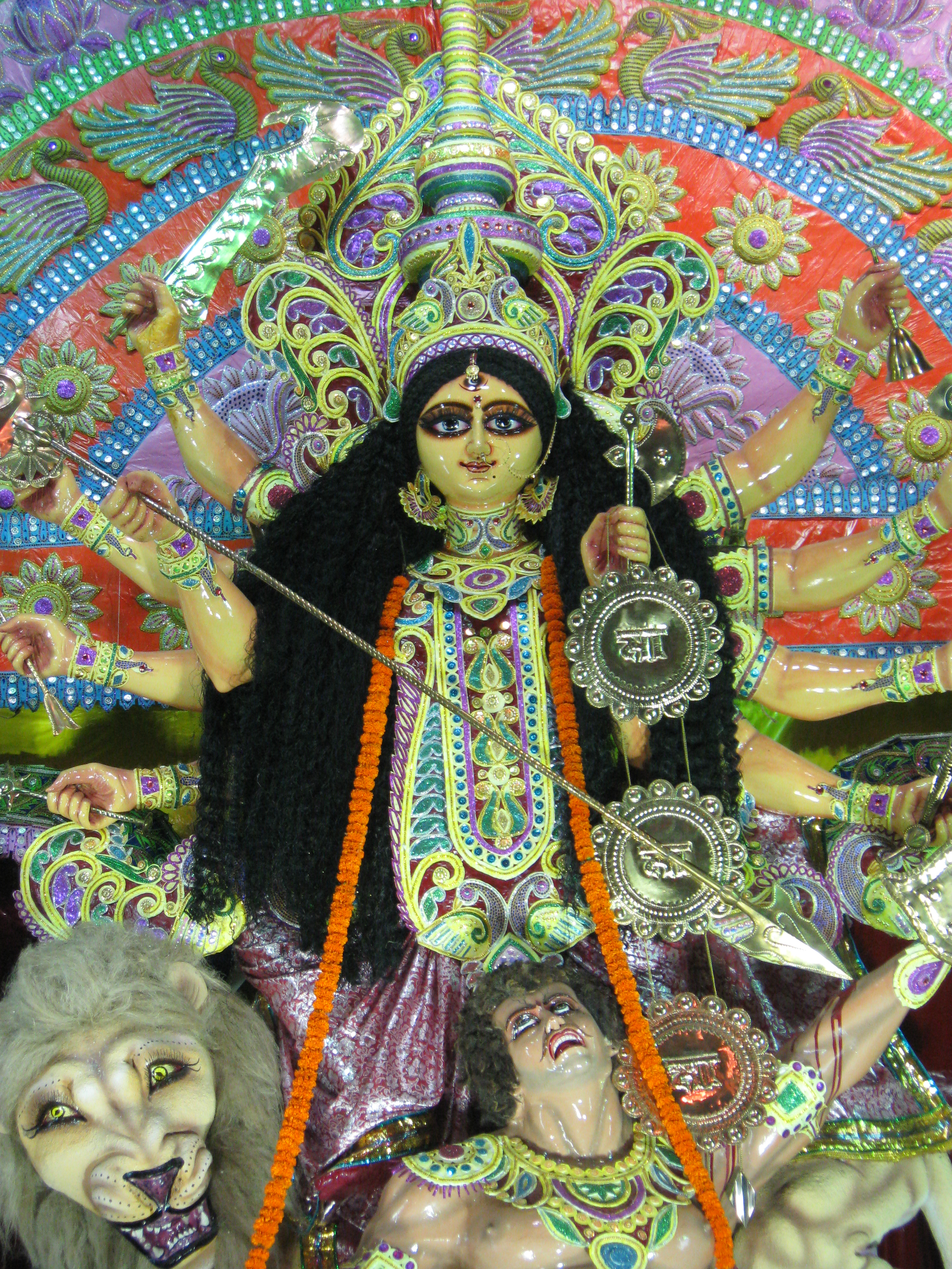 sreerampore of west bengal.